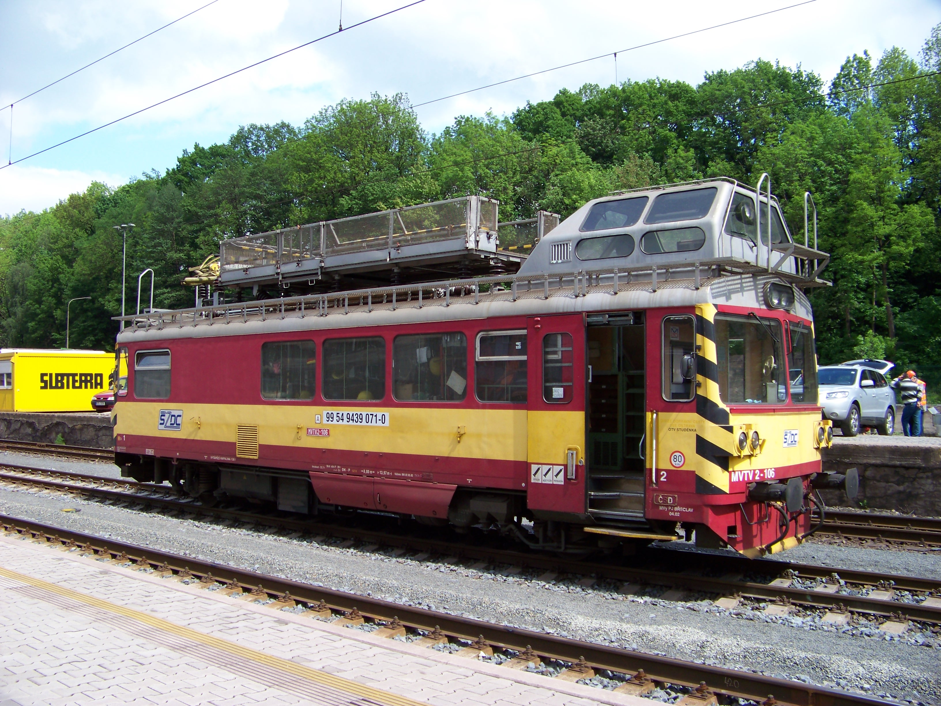 Třinec, Frýdek-Místek District, Moravian-Silesian Region, the Czech Republic. A train station, a vehicle MVTV2-106.